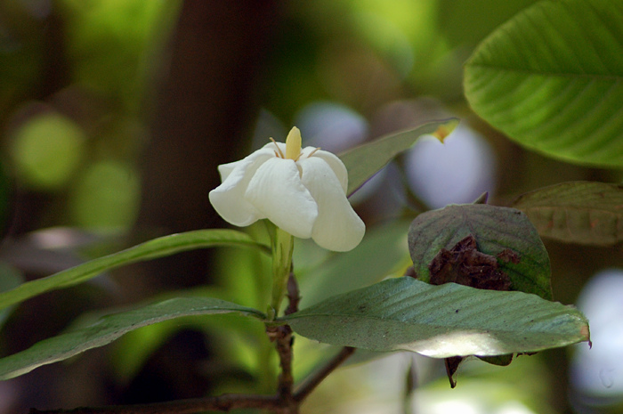 Gardenia resinifera